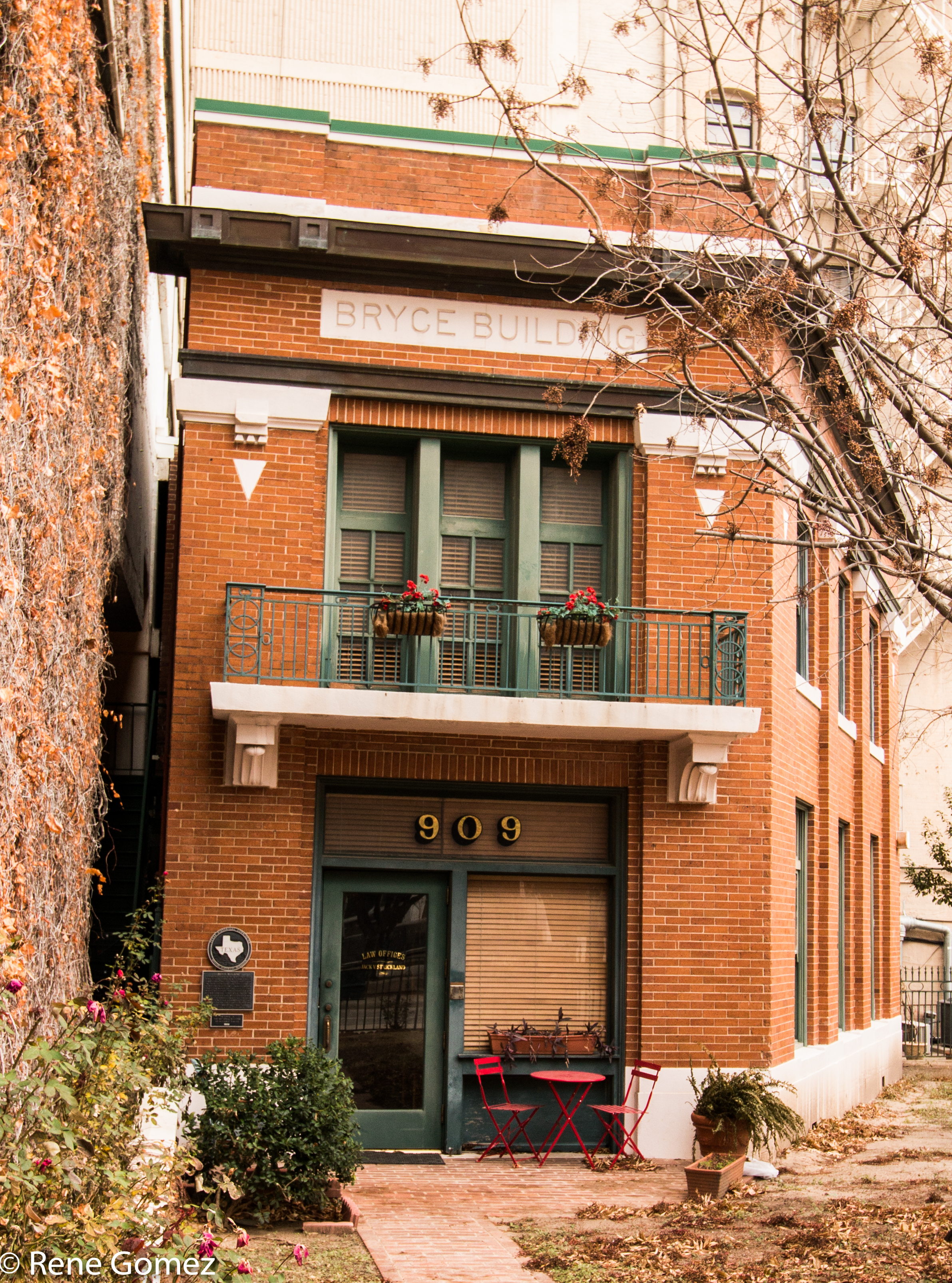 Bryce Building in Fort Worth, Texas